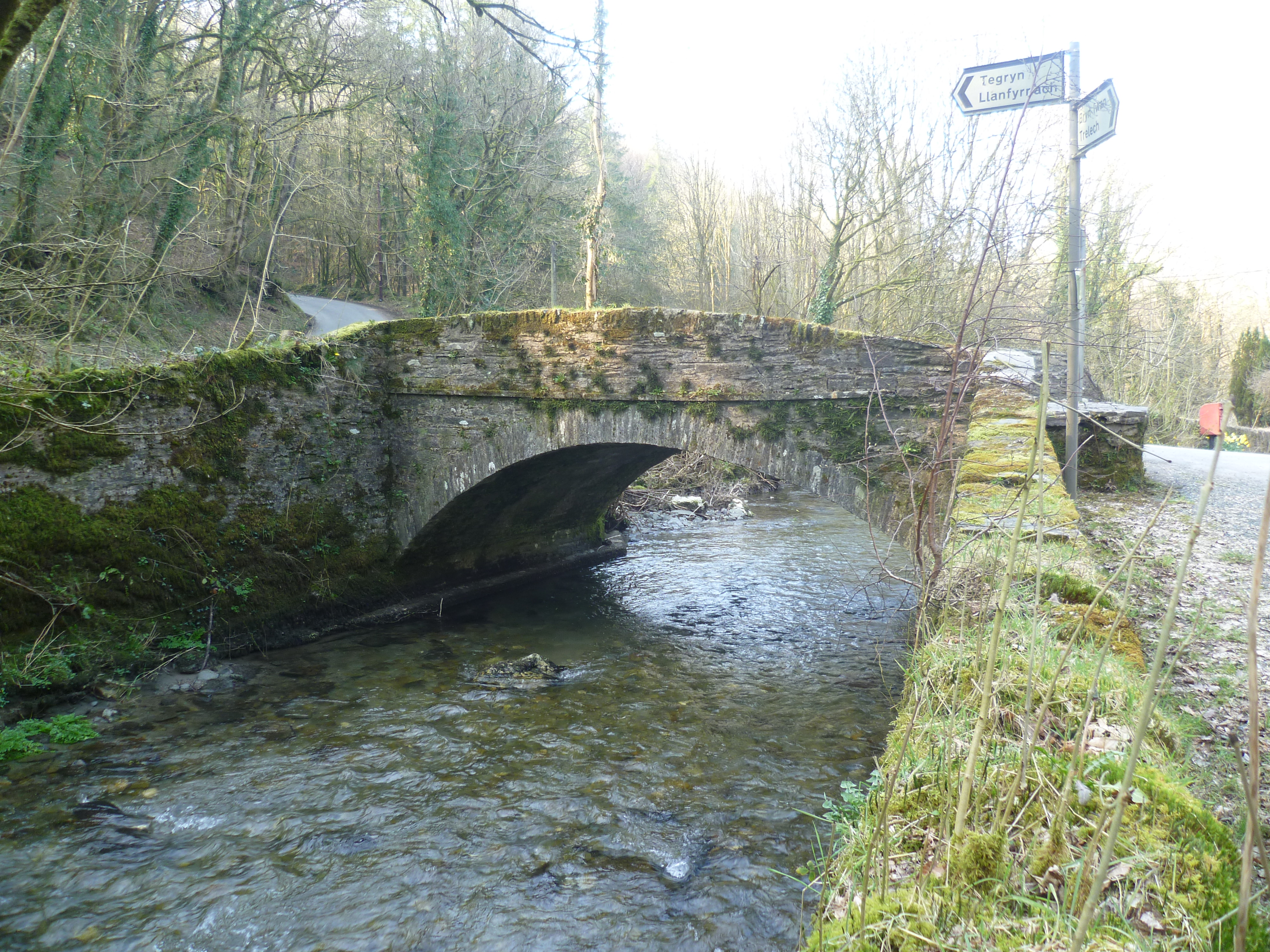 Single-arch bridge 1783 or later over Afon Cych, Cwmcych, Pembrokeshire-Carmarthenshire border.